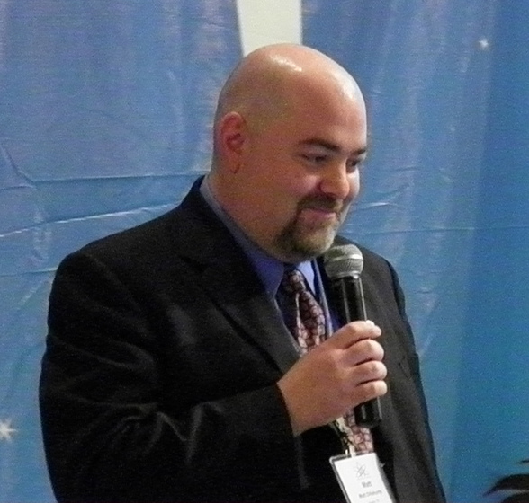 Matt Dillahunty, president of the atheist community of Austin